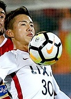 Hiroki Abe